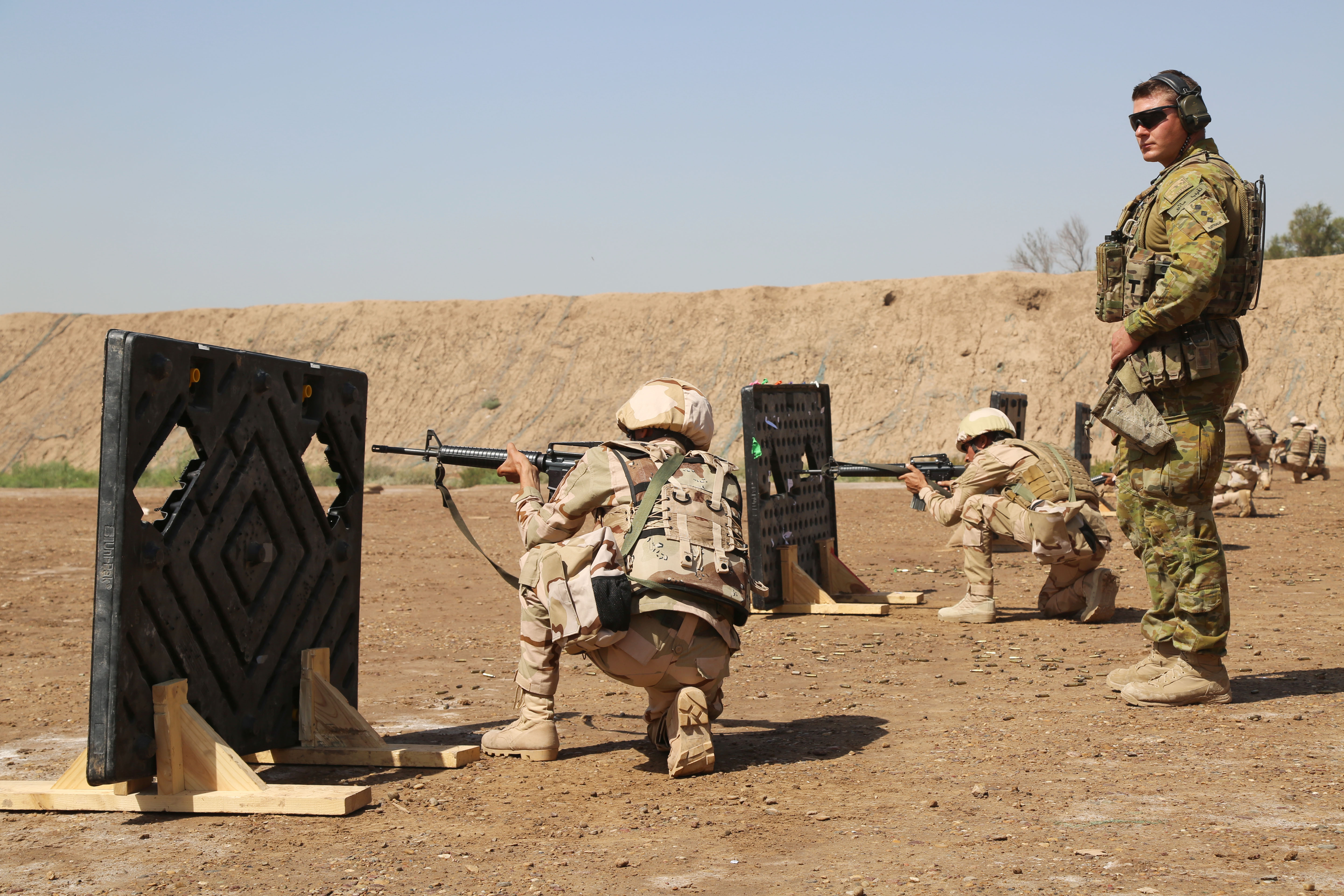 An Australian trainer with Task Group Taji, observes Iraqi soldiers, assigned to 3rd Battalion, 36th Brigade, 9th Mechanized Division, as they fire their M16 rifles during aperture range training at Camp Taji, Iraq, April 17, 2016. Aperture training allows Iraqi soldiers to practice proper marksmanship techniques by firing through small openings and from behind large structures. Camp Taji is one of four Combined Joint Task Force – Operation Inherent Resolve building partner capacity locations dedicated to training Iraqi Security Forces. (U.S. Army photo by Sgt. Kalie Jones/Released)